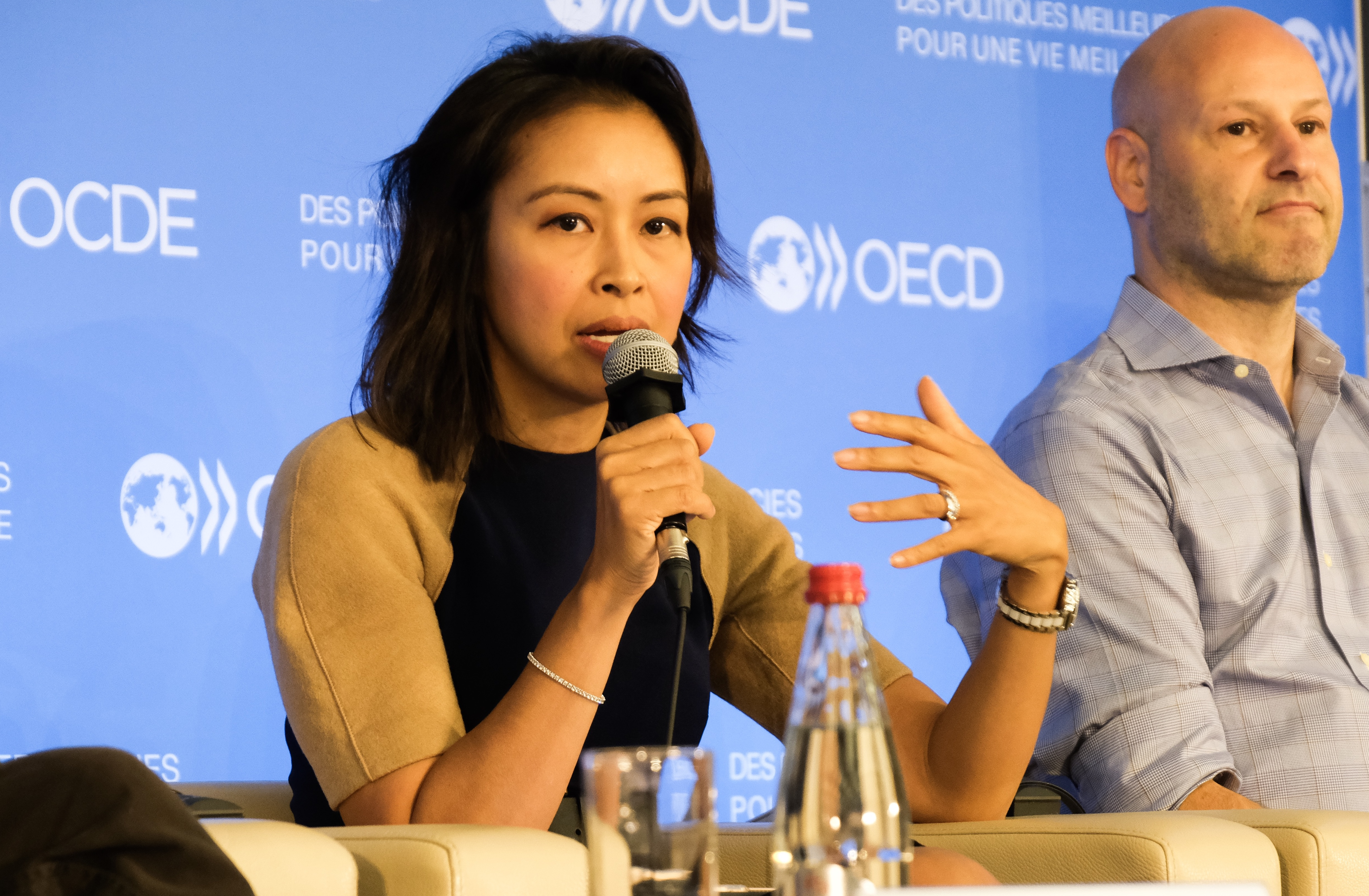 Angie Lau, founder & editor-in-chief of Forkast.News, moderates a panel on "The Next Big Thing -- Major Developments in DLT From Industry & Governments in the Year Ahead" at OECD's Global Blockchain Policy Forum 2019. Panelists include Joseph Lubin (Founder of ConsenSys), Pēteris Zilgalvis (Head of Unit for Digital Innovation and Blockchain in the Digital Single Market Directorate in DG CONNECT), David Treat (Managing Director, Global Blockchain Lead at Accenture), Valerie Szczepanik (Senior Advisor for Digital Assets and Innovation, Securities and Exchange Commission), and Muhammed Emin Torunoglu (head of behavioral public policy and disruptive technologies department at the Ministry of Trade of Turkey)